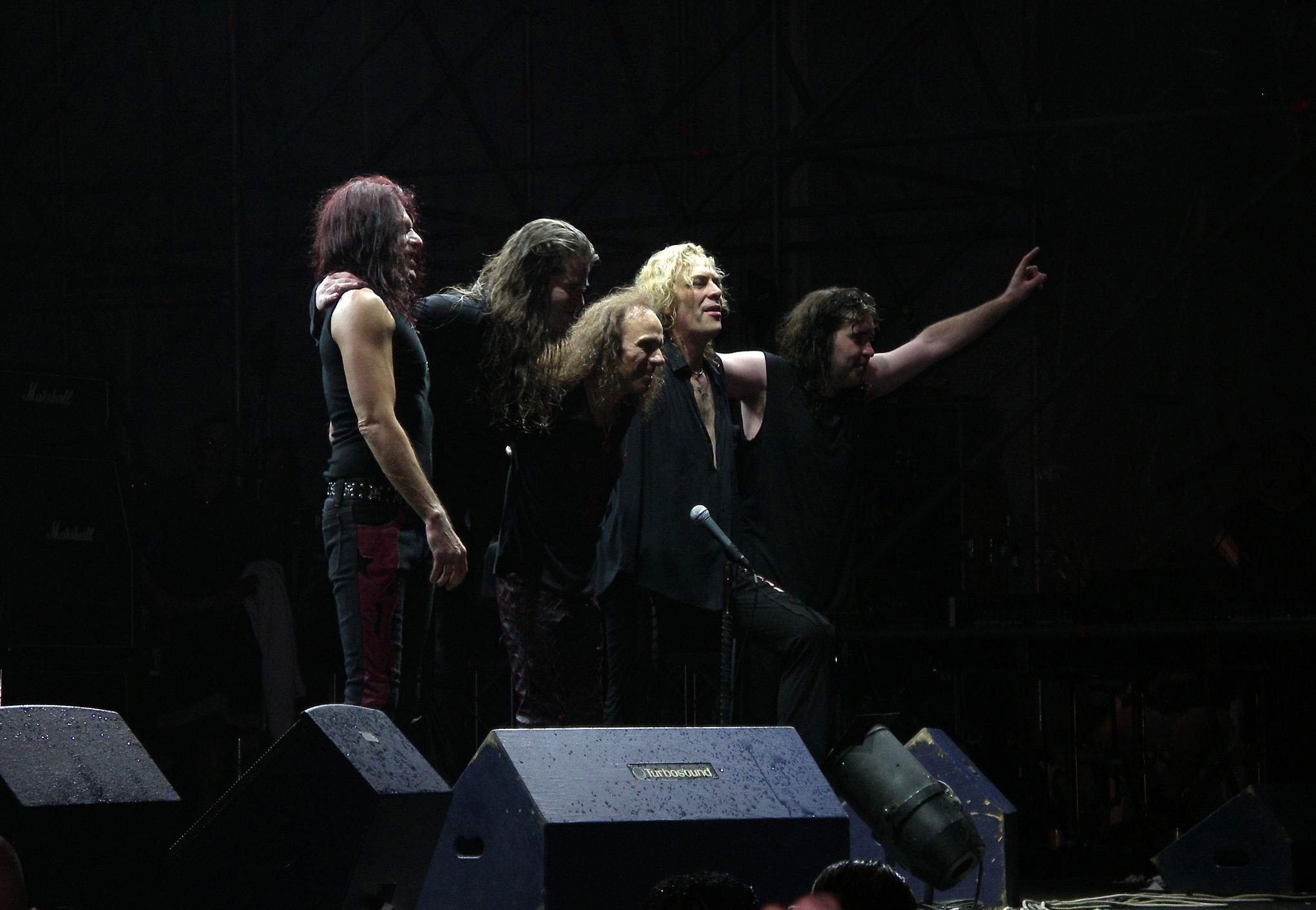 Dio after one of their final concerts in Italy in 2005.